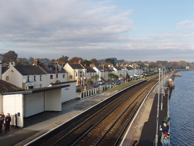 Starcross railway station. The railway follows the shore of the Exe Estuary, and is the exposed to the open sea at Dawlish before turning inland to Newton Abbott. The houses, shops and public houses of the village seen beyond the railway are along the narrow A379 road from Exeter to Dawlish. For more information see the Wikipedia article Starcross railway station.